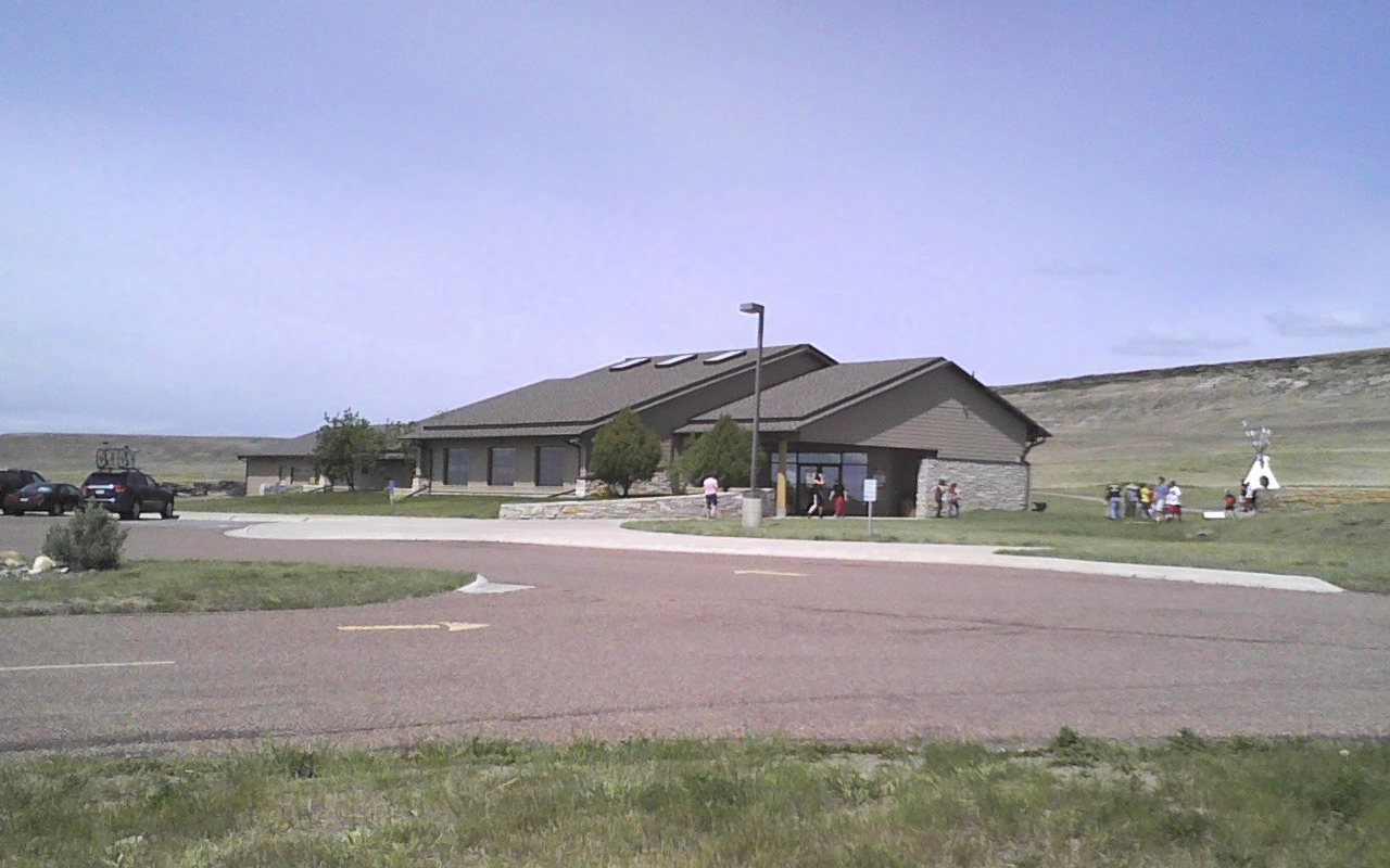 FIrst People's Buffalo Jump State Park visitor center, near Ulm, Montana